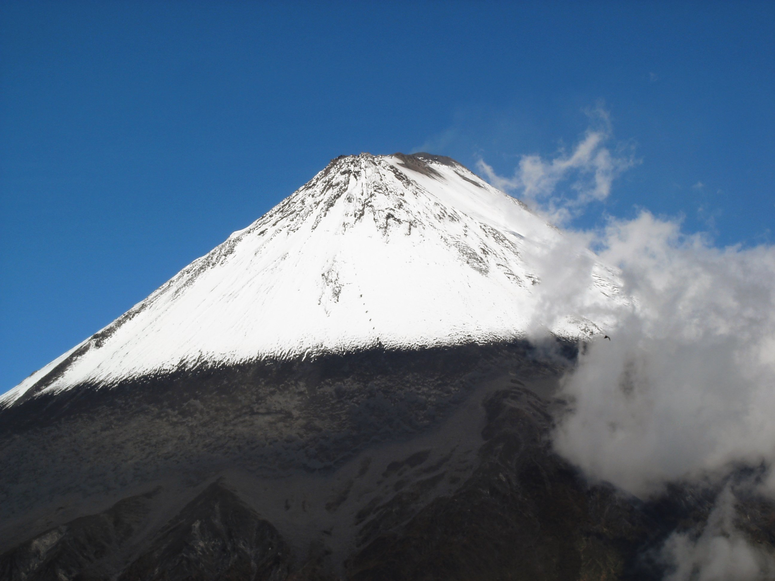 Summit of the Sangay stratovolcano. Ecuador, January 2006